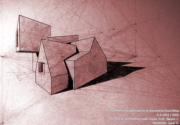 Shadows in the perspective of a solids composition Fundamentals and Applications of Descriptive Geometry. 2001 / 2002 Faculty of Architecture of Valle Giulia. Prof: Nasini. L.; Assistant: Hasan sapienza University of Rome